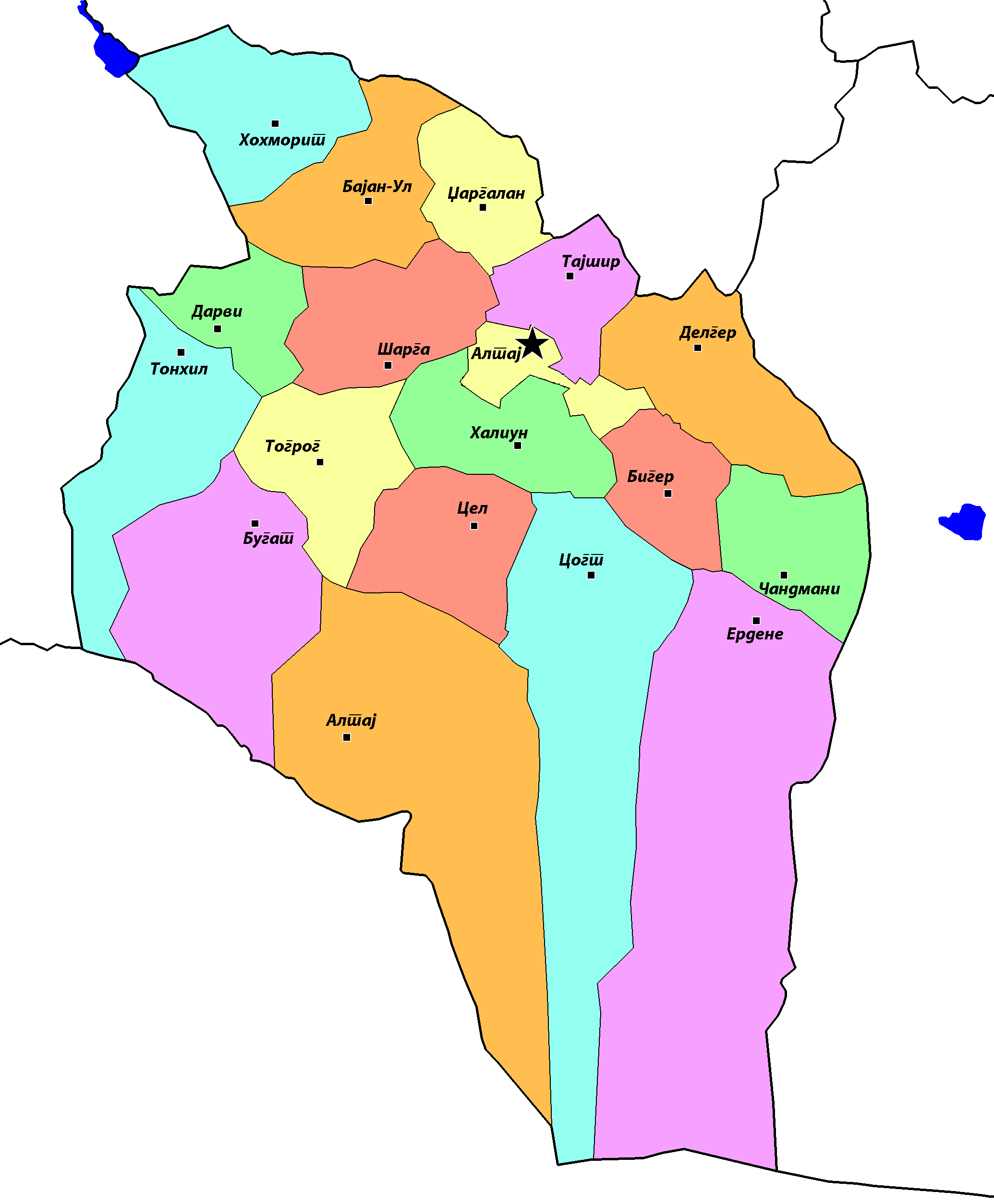 Translated map of Govi-Altai Sum into Macedonian language